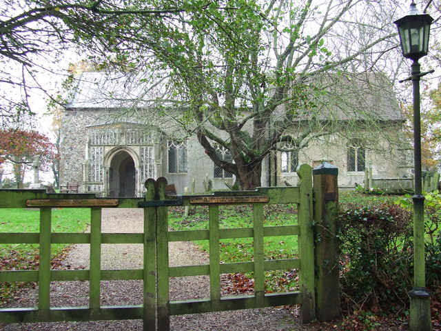 Church of All Saints in Saxtead, Suffolk, England. A Grade I listed medieval church.